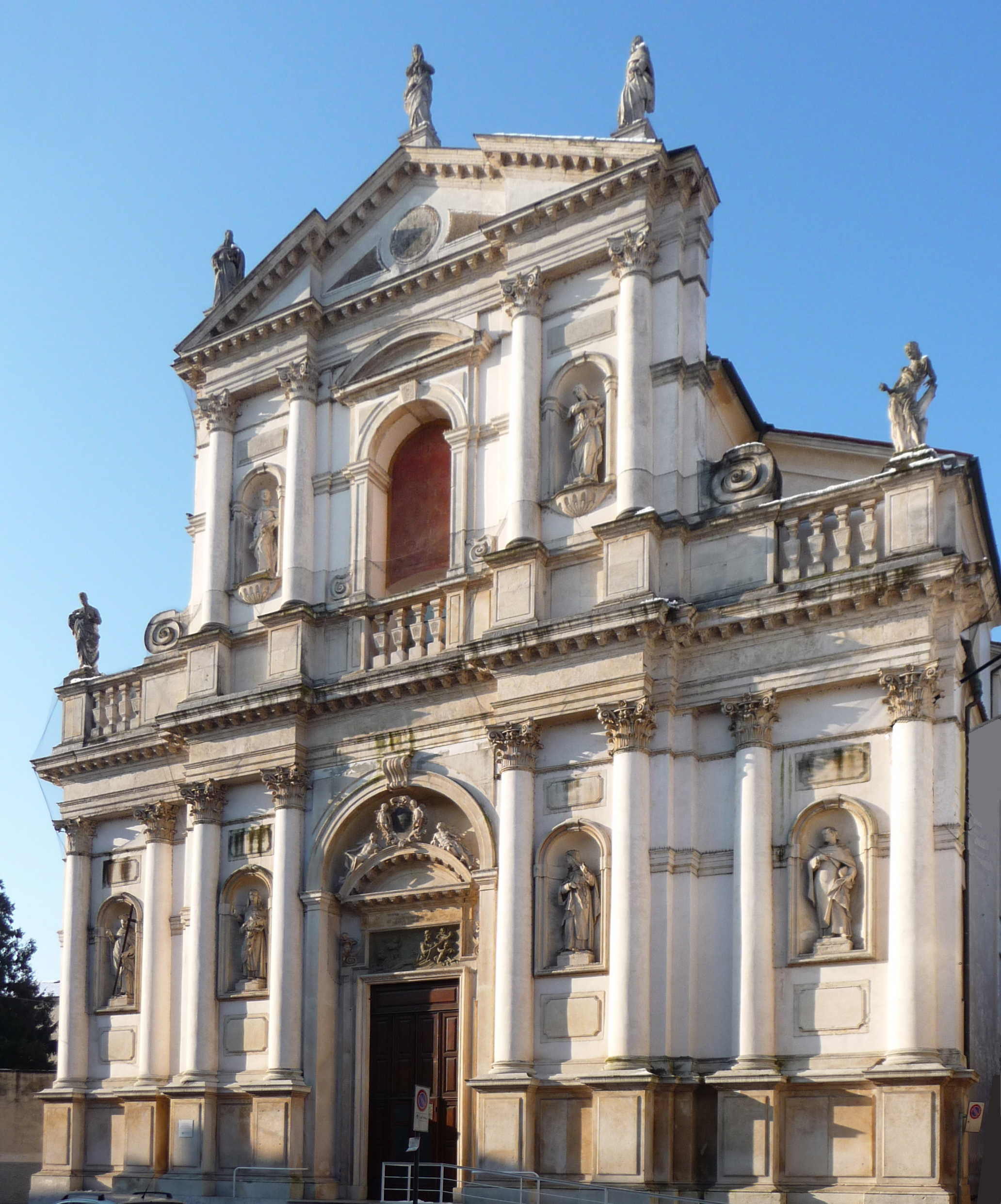 Facade of the church of San Marco in San Girolamo in Vicenza. Right side view. Digitally rectified and retouched.